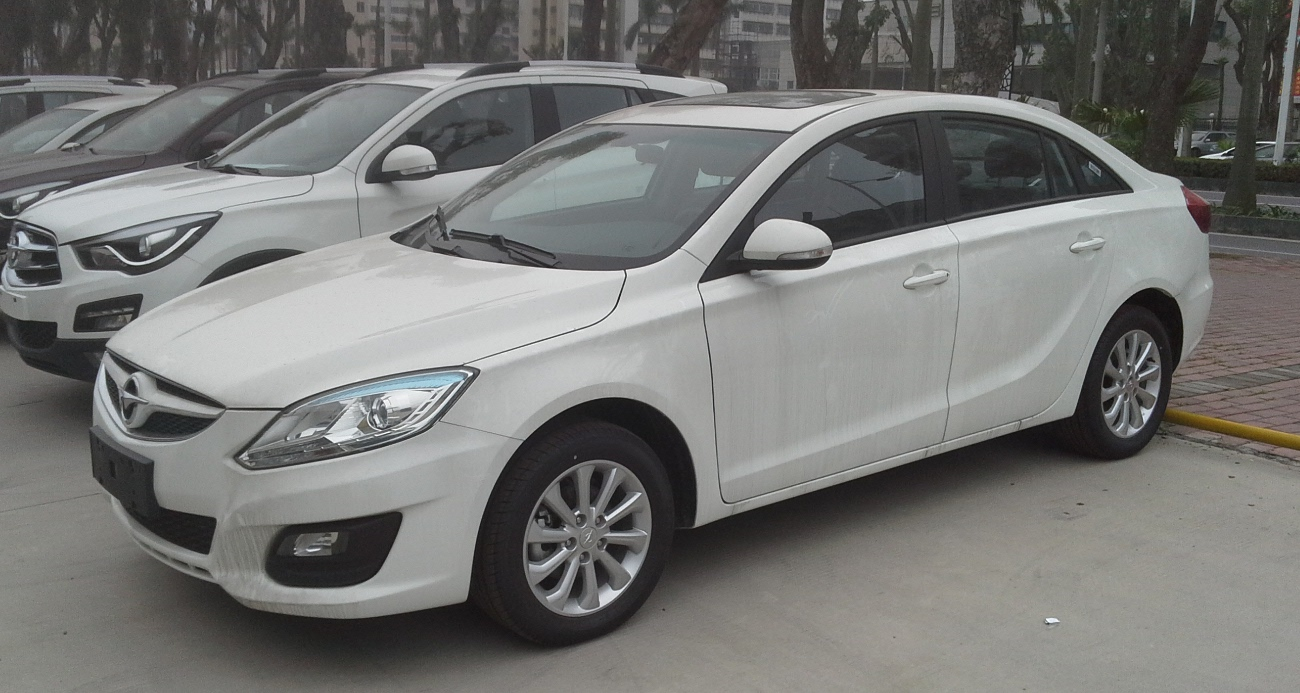 Haima M6 photographed in Zhanjiang, Guangdong province, China.